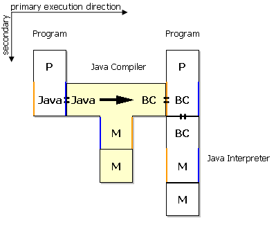 Example for a T diagram of a Java compiler. Created with the program TDiag, a component of AtoCC.